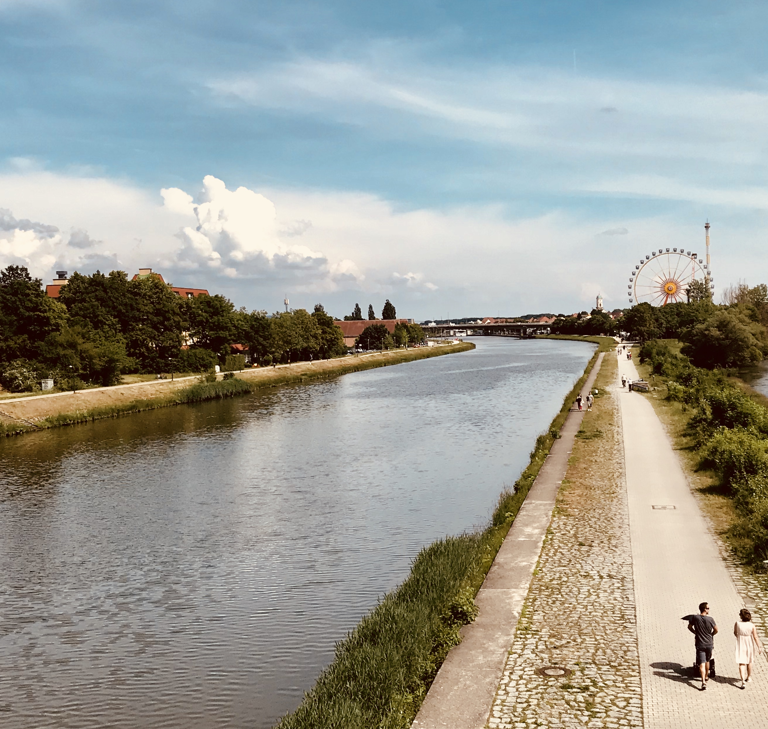 A summer evening life of Regensburg